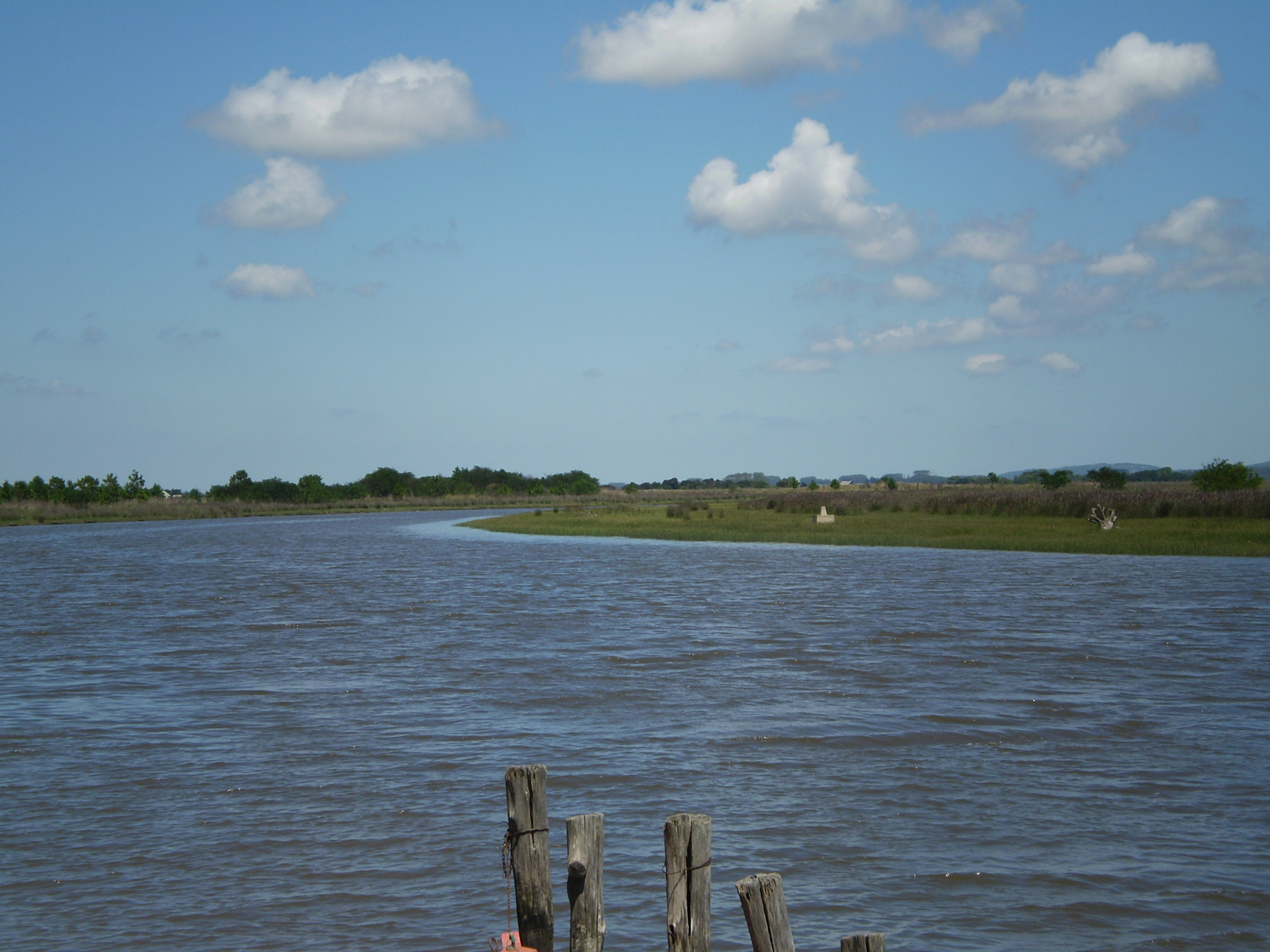 Arroio Chuí on the southest point of the Brazil, view from Chuy, Uruguay.